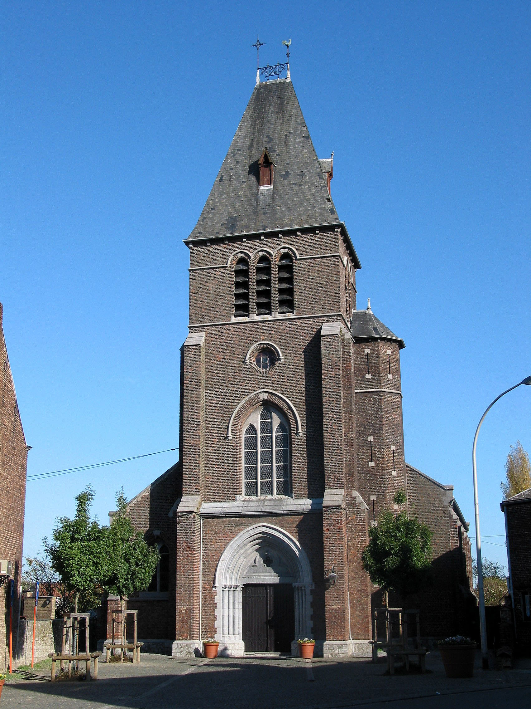 Belgrade (Belgium), the St. Joseph church (1900-1901).